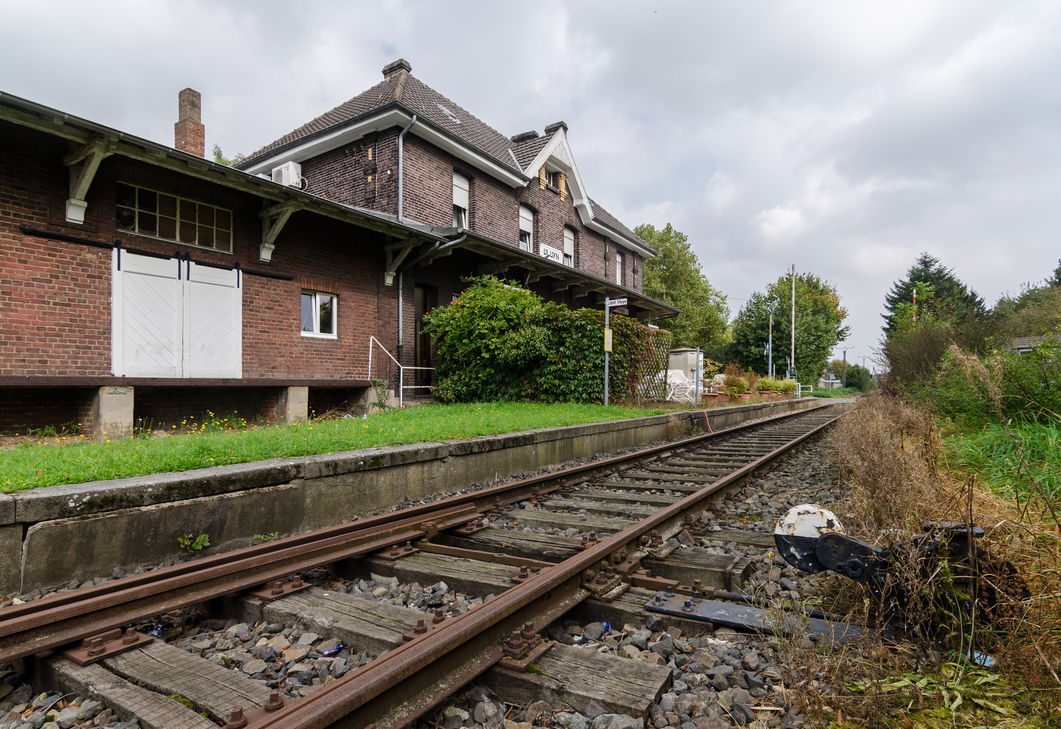 Neukirchen-Vluyn (North Rhine-Westphalia, Germany) – district Vluyn – train station This image shows a heritage building in Germany, located in the North Rhine-Westphalian city Neukirchen-Vluyn (no. 32). This photograph was taken with a Nikon D7000